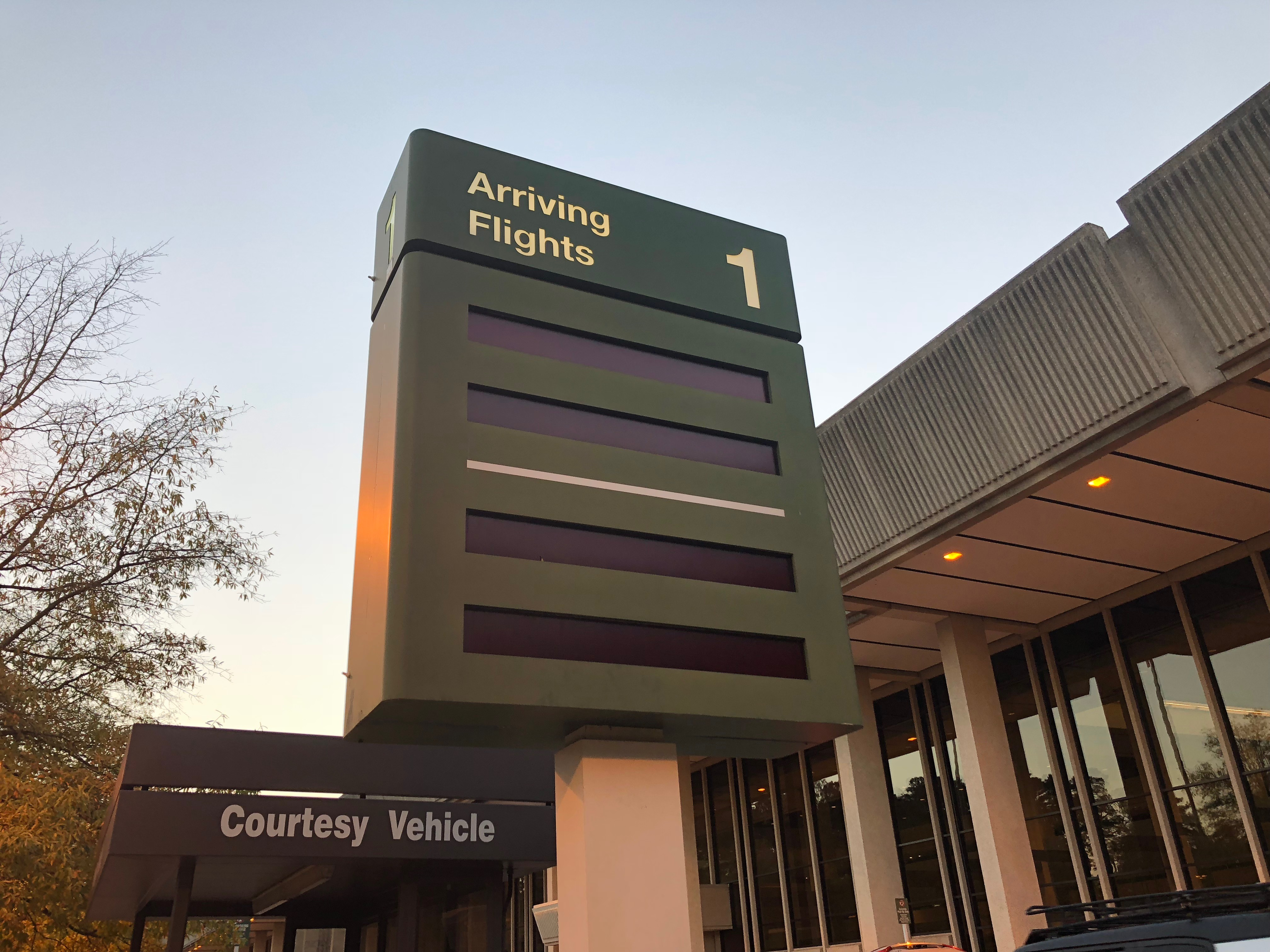 ORF!!